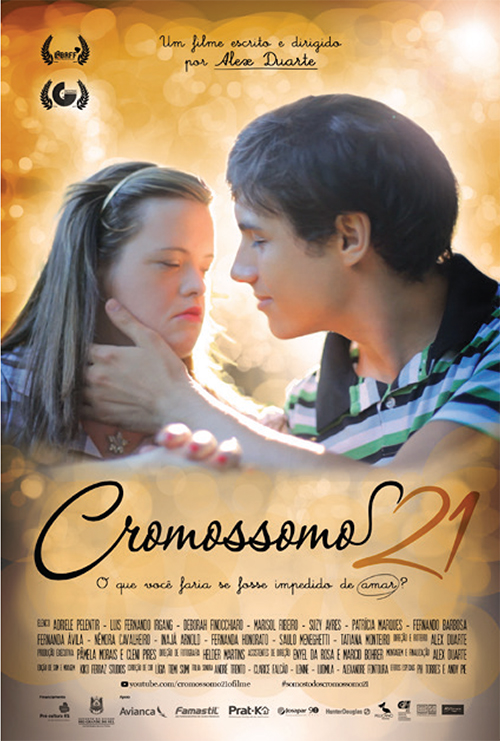 Filme Cromossomo 21